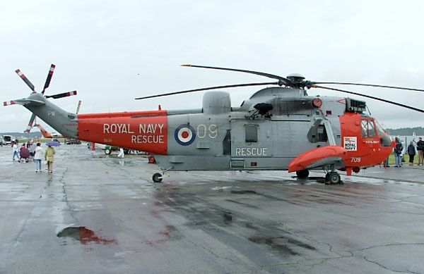 Royal Navy Sea King. Kiel Marien Air Force Base, Germany. 2005 /PAJ